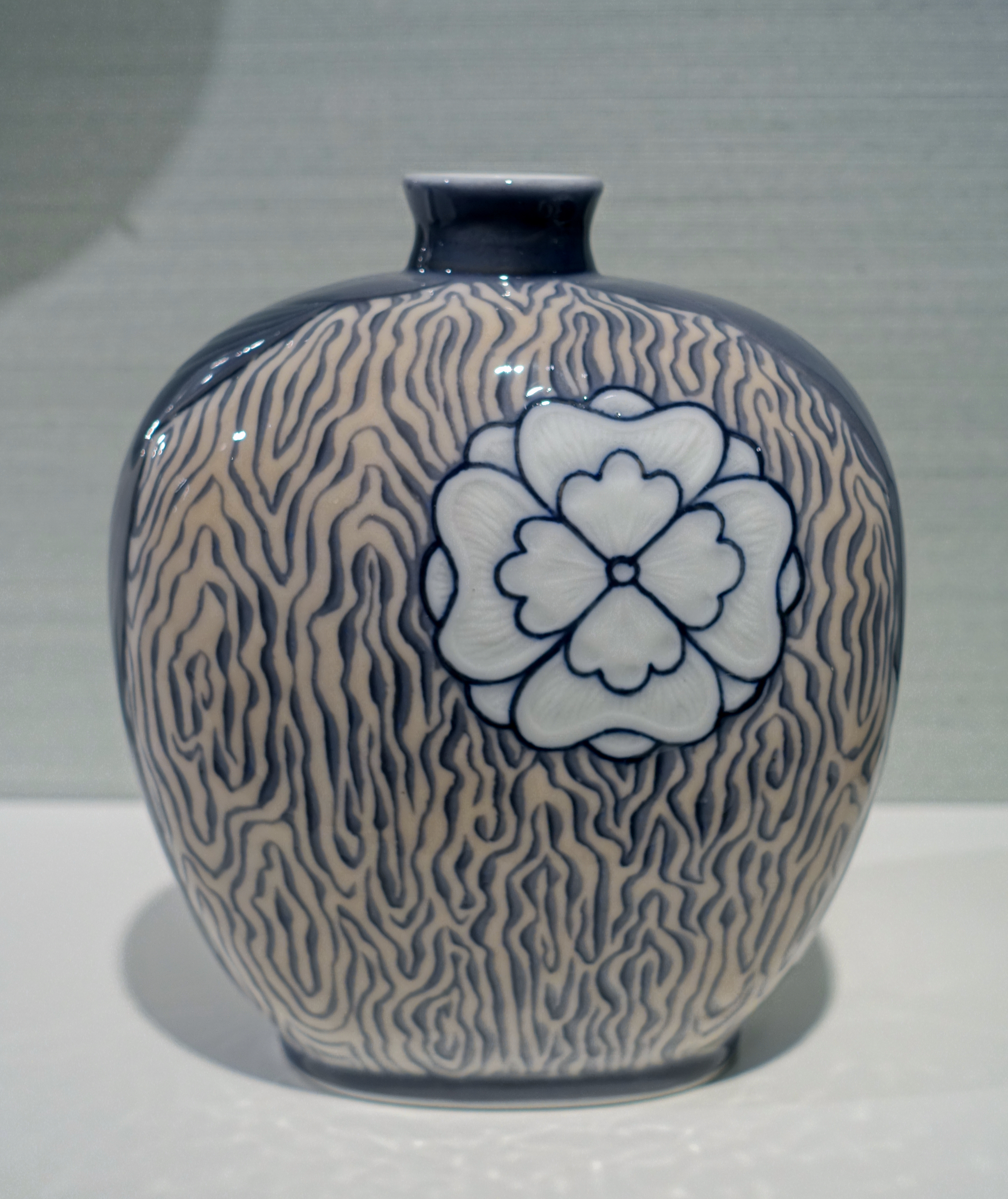 Exhibit in the Hessisches Landesmuseum Darmstadt - Darmstadt, Germany. As a utilitarian object, this exhibit is NOT subject to copyright laws. Instead it is subject to Industrial Design Rights; see Industrial Design Right for more information. If this object was ever covered by a design patent, that patent has long since expired, and thus this image is in the public domain.